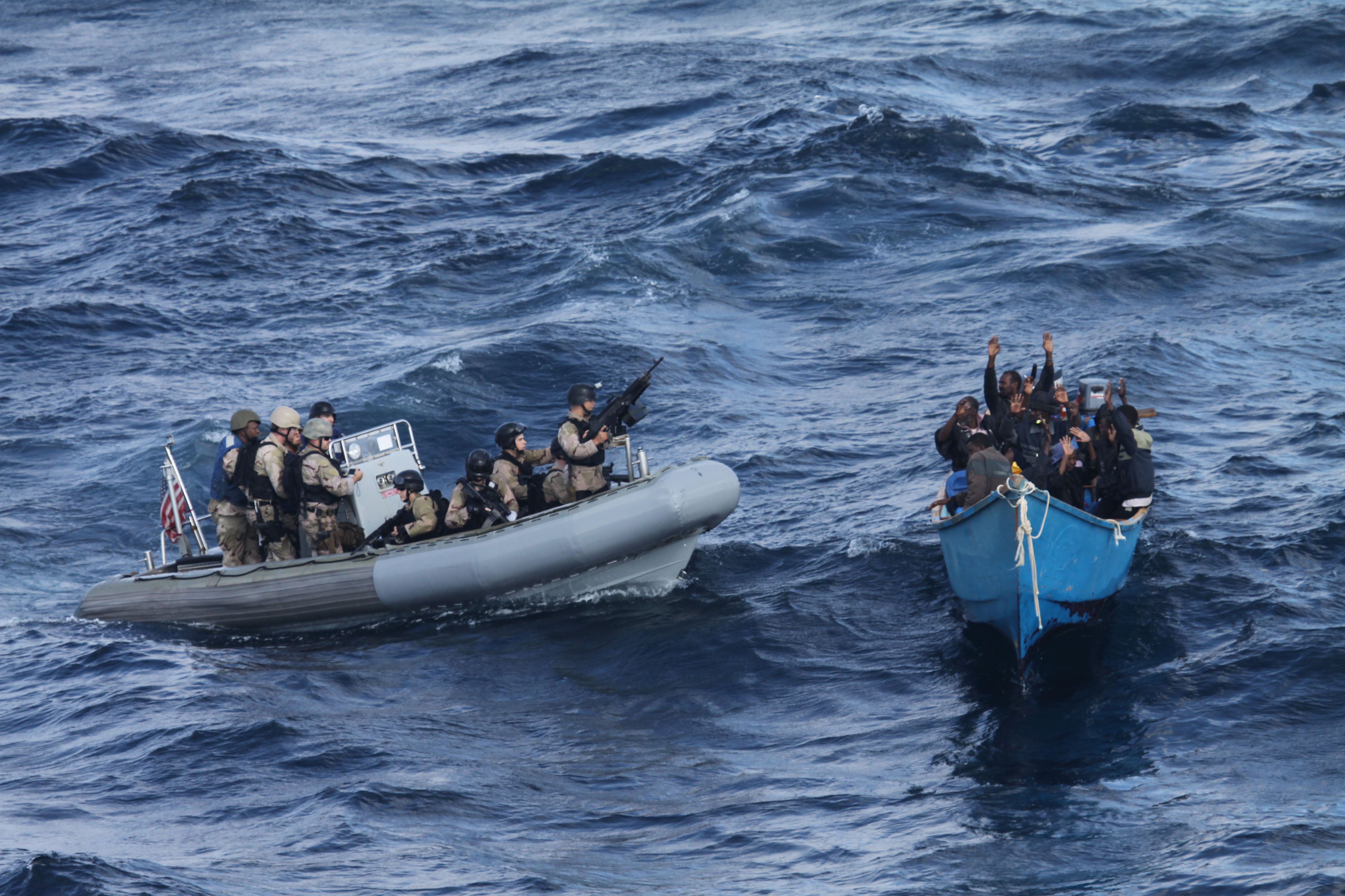 GULF OF ADEN (Dec. 19, 2011) A visit, board, search and seizure team from the guided-missile destroyer USS Pinckney (DDG 91) approaches a suspected pirate vessel after the Motor Vessel Nordic Apollo reported being under attack and fired upon by pirates. Pinckney is assigned to Combined Task Force 151, a multinational, mission-based task force working under Combined Maritime Forces to conduct counter-piracy operations in the Southern Red Sea, Gulf of Aden, Somali Basin, Arabian Sea, and Indian Ocean. (U.S. Navy photo/Released)